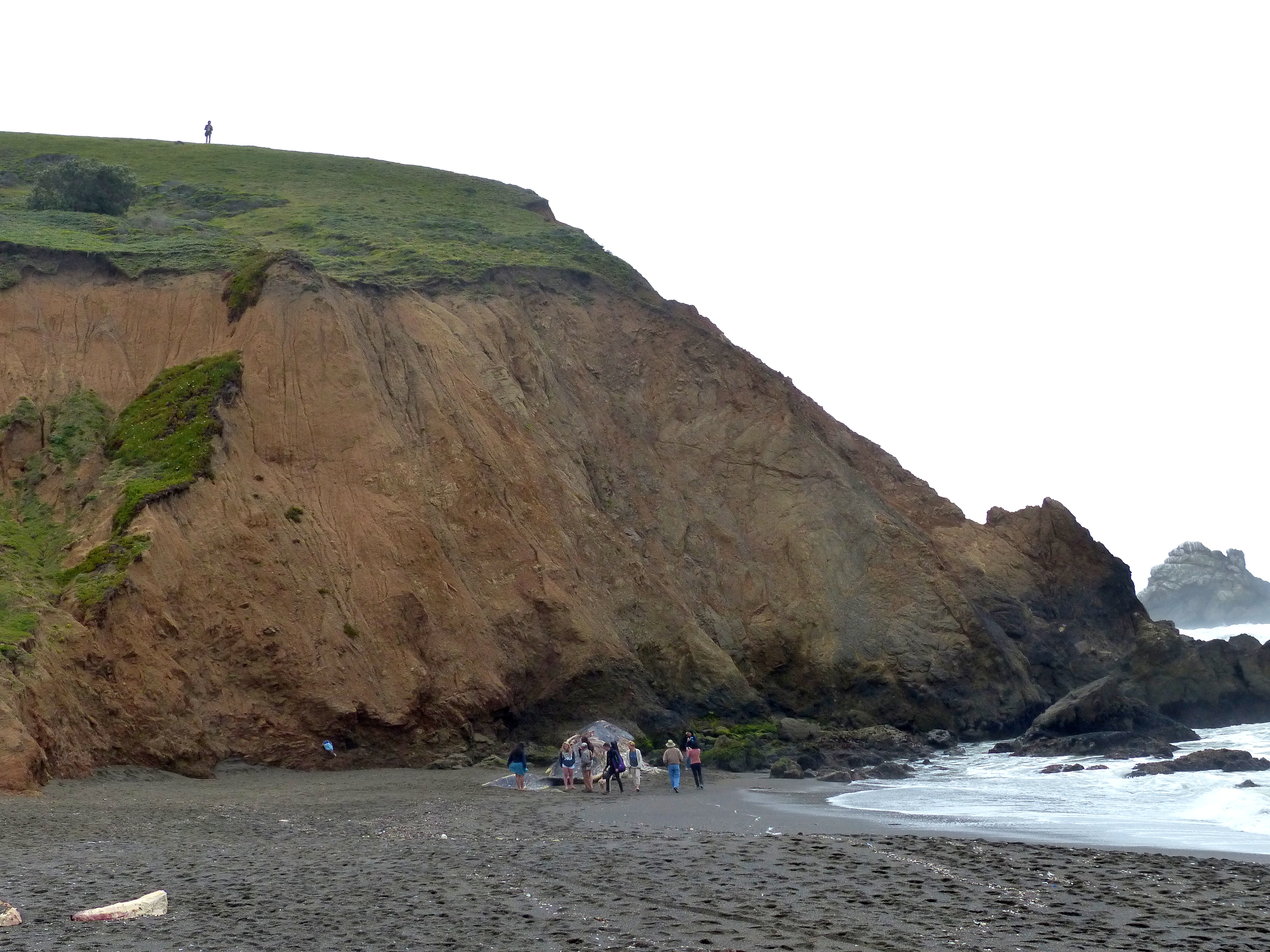 Quiet and respectful onlookers gather around the leviathan.